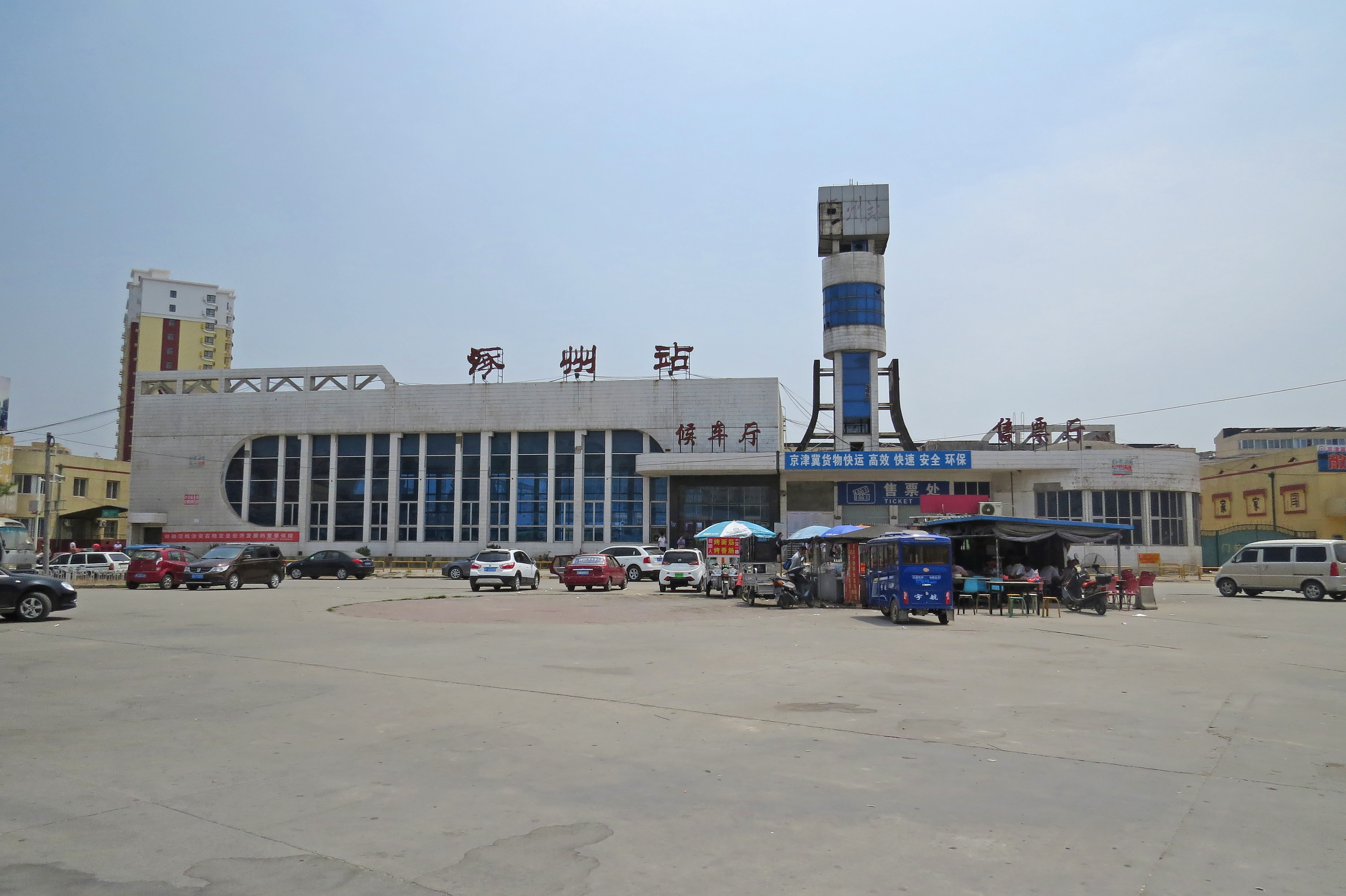 This one is probably built in the 1990s...